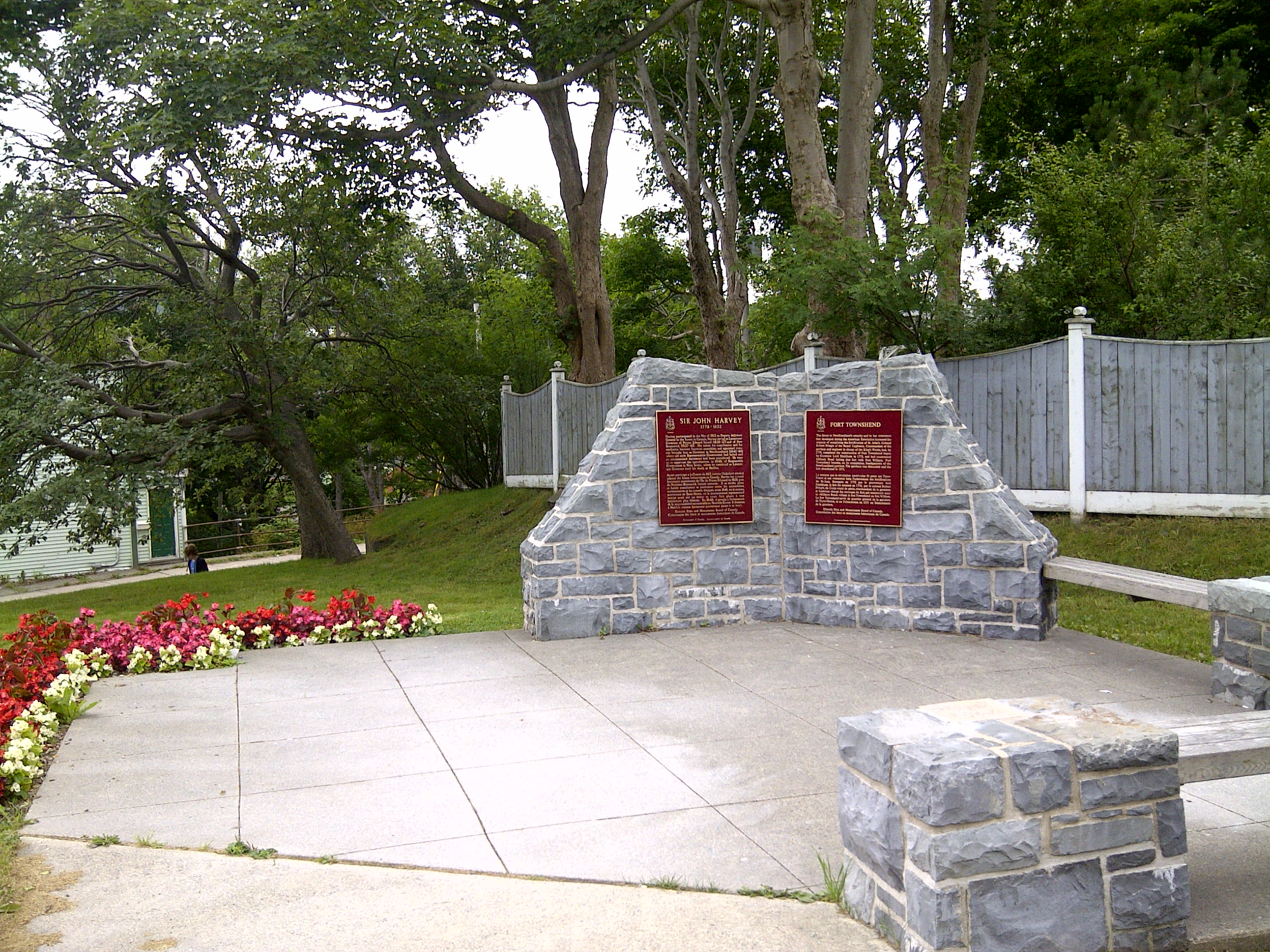 The site formerly occupied by Fort Townshend in St. John's, Newfoundland and Labrador, Canada. An archaeological site now partly marked by plaques, the fort served as the headquarters of the Newfoundland garrison from 1779 until 1871. There are no visible above-ground remains of the fort. The site is now mostly occupied by The Rooms, the provincial museum and archives. The site was designated a National Historic Site of Canada in 1951. The site is also marked by a plaque commemorating John Harvey, the Civil Governor of Newfoundland from 1841 to 1846.